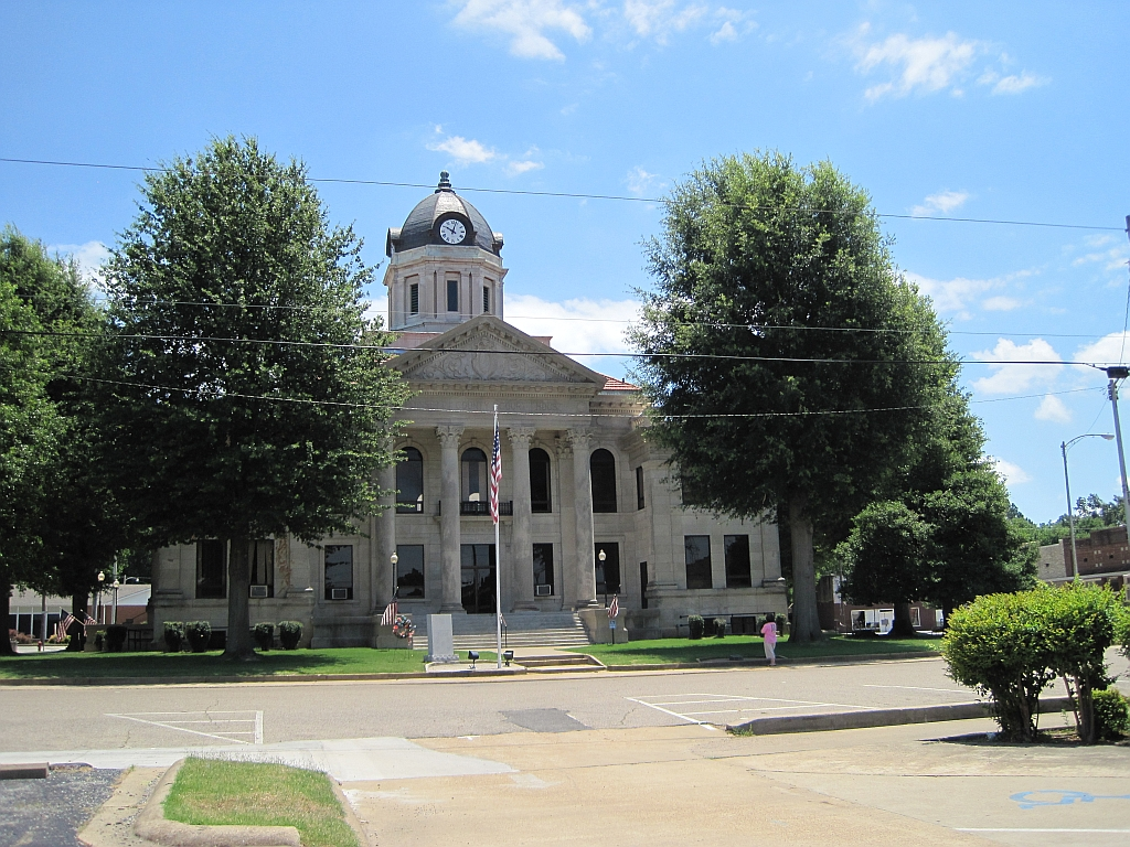 Downtown Harrisburg, Arkansas Court house